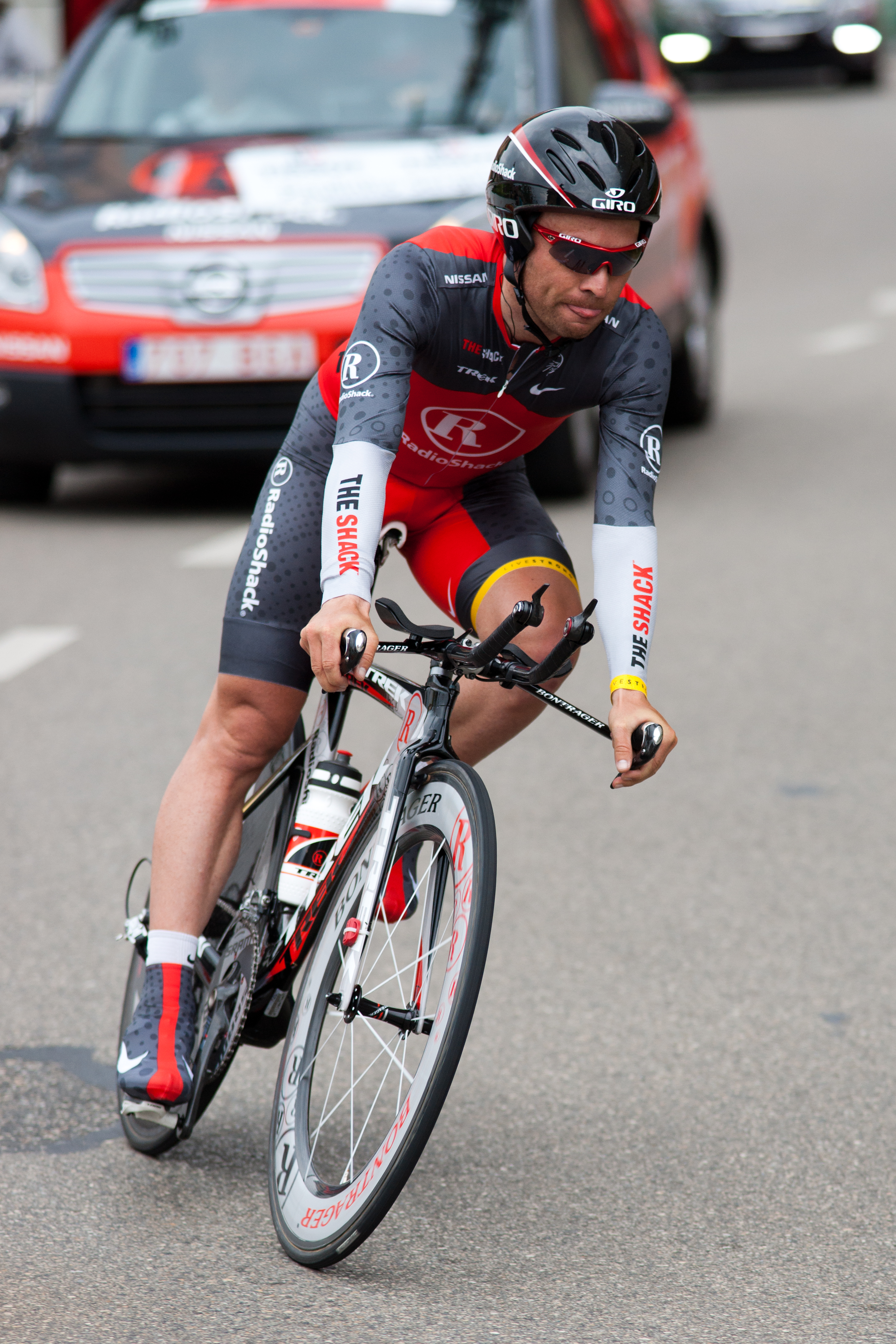 Sergio Paulinho during the 3rd stage of the Tour de Romandie 2010.